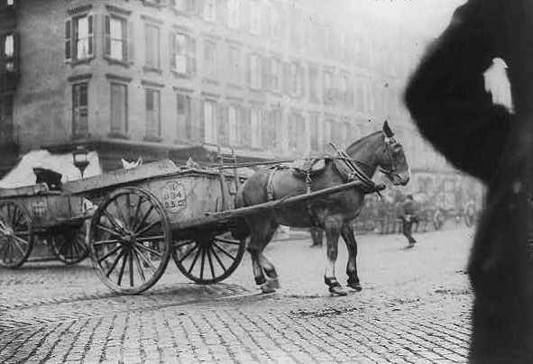 N.Y.C. Garbage collector's strike, 1911: horse-drawn cart being stoned; scab driver is hiding inside